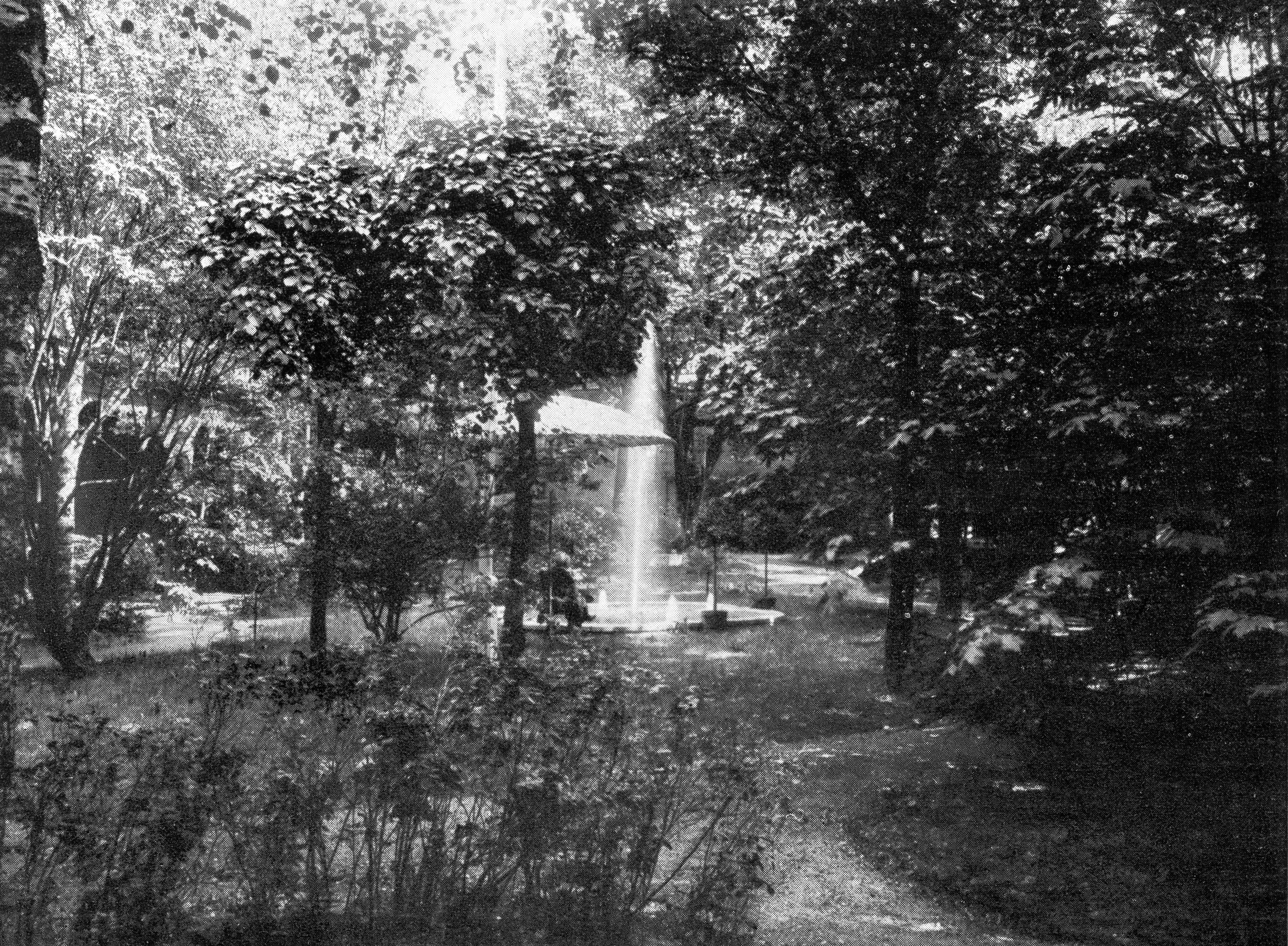 Kalmar Nation, Uppsala. First house 1913-1957. Garden with fountain 1915.